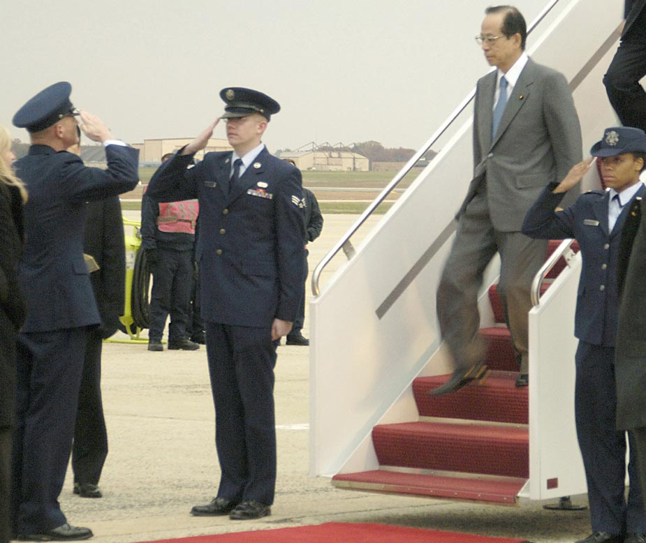 Col. Paul R. Ackerley, 316th Wing commander, salutes Yasuo Fukuda, 91st Prime Minister of Japan, as he deplanes his aircraft on the Andrews Air Force Base flight line Nov. 15.